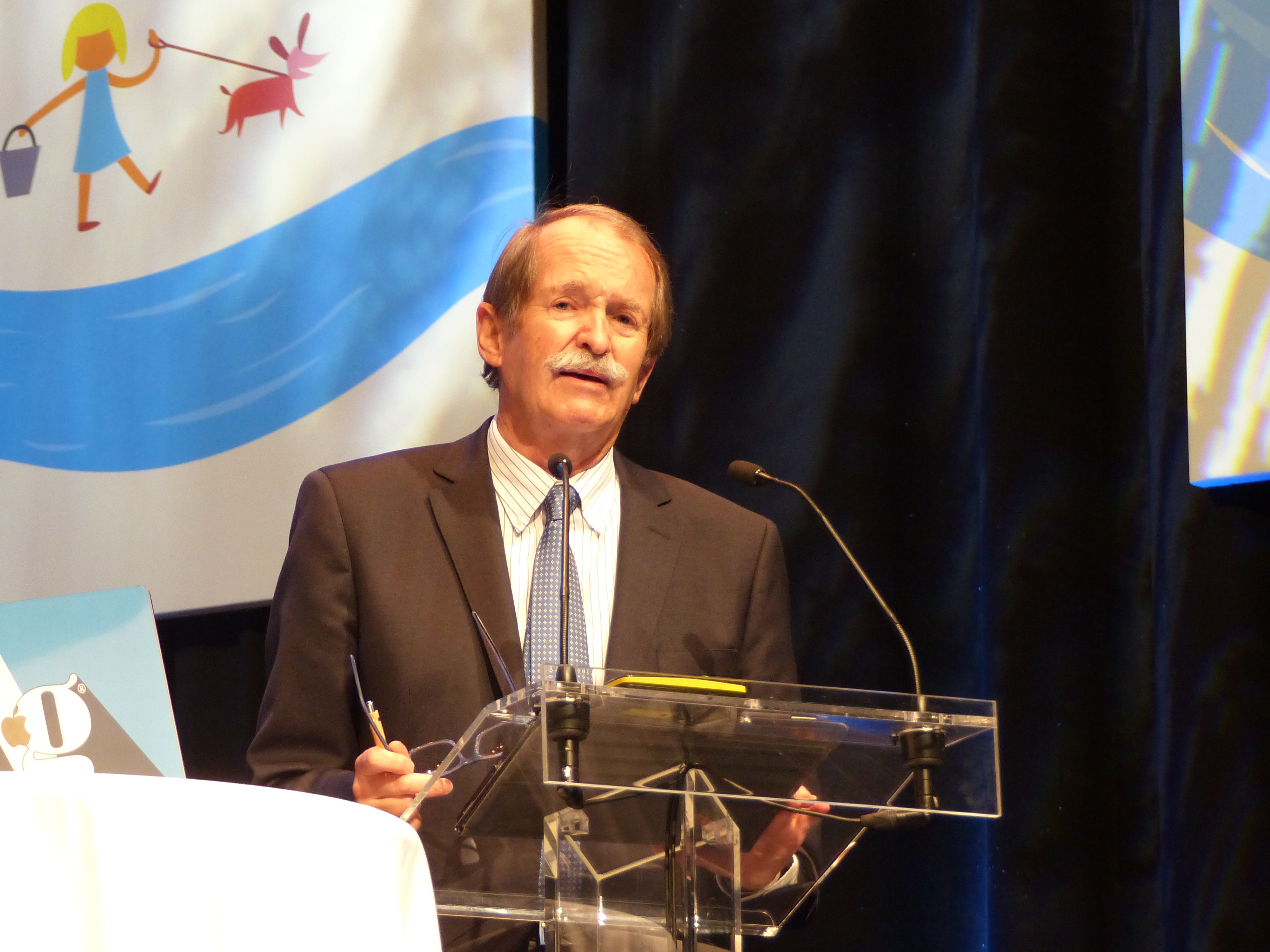 Duarte Pio di Braganza. Taken on the 27th of May, 2017. World Congress of Families XI. Budapest Congress Center. Hungary, Central Europe.